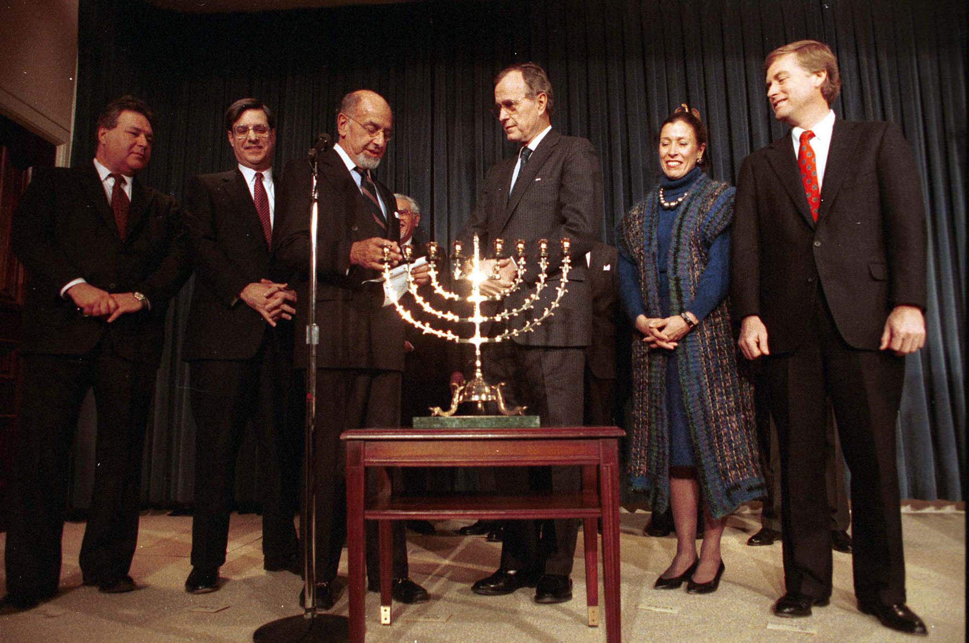 P09025-17A President Bush participates in a Hanukkah Celebration in the Old Executive Office Building, Washington, DC, 21 Dec 89. Photo Credit: George Bush Presidential Library